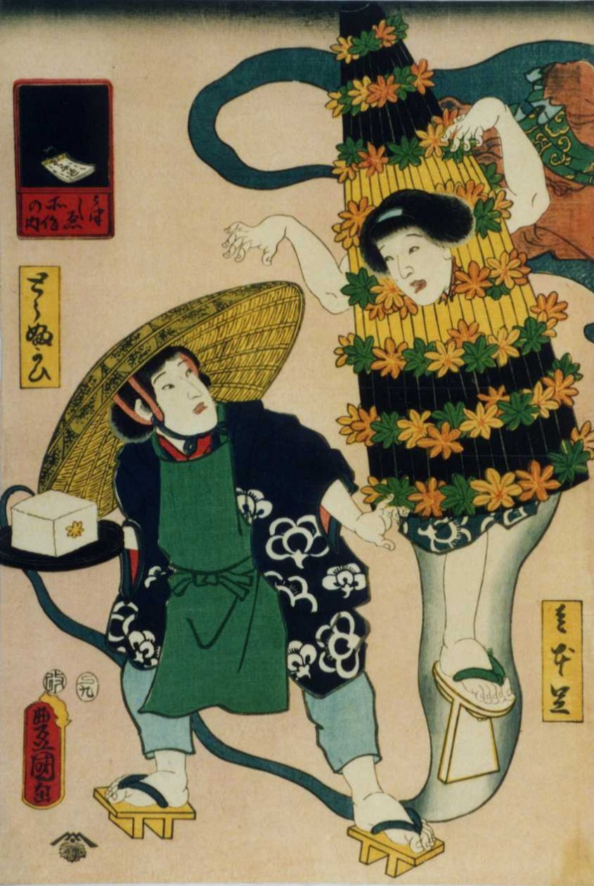 left sheet of a kabuki triptych, unknown actors in a Sanbaso performance, left Tofukahi, right Ichimotoashi („one true leg“), publisher Tsutaya Kichizō, date 9/1857